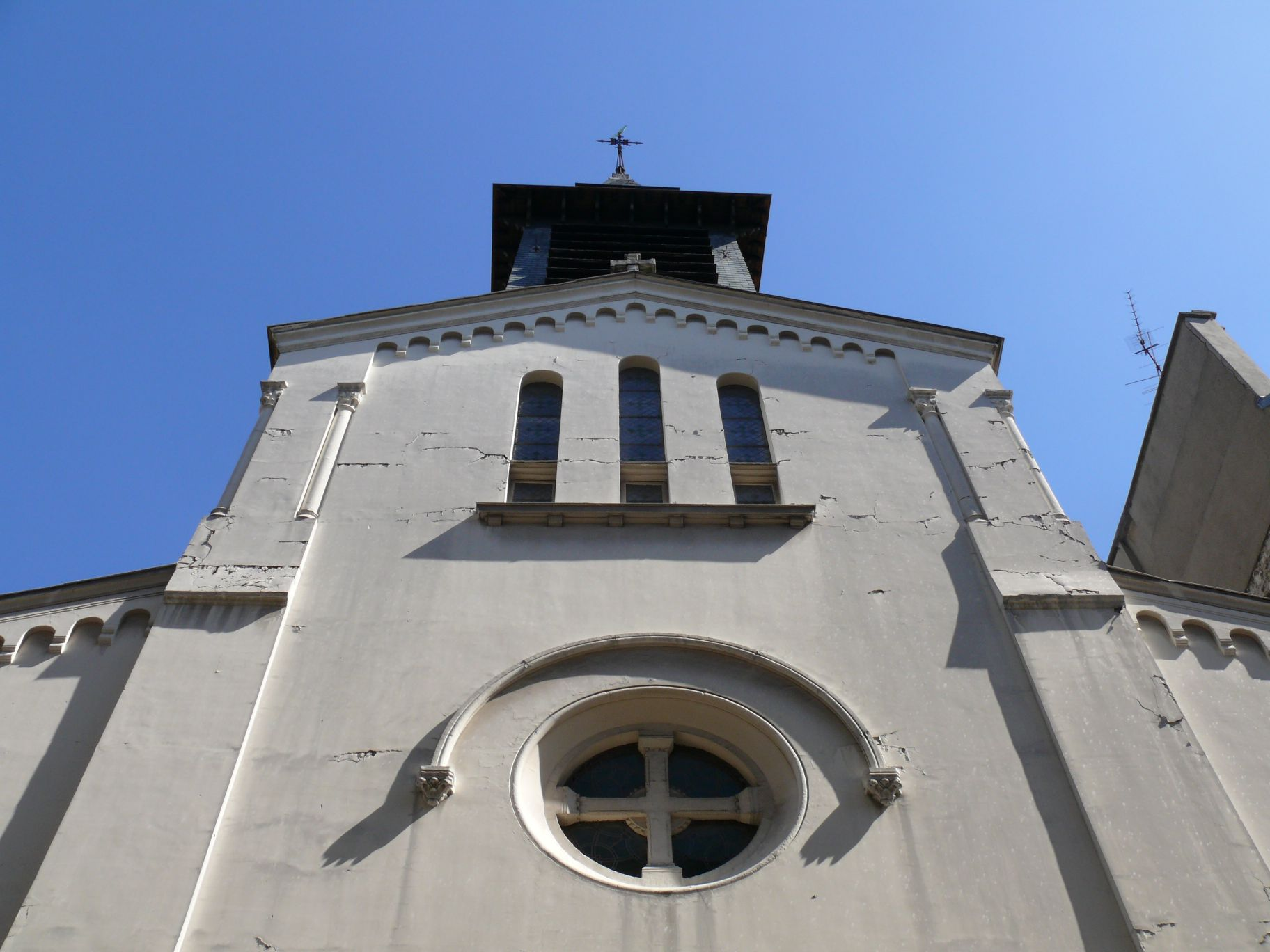 Saint-Martin-des-Champs' church, in Paris (Paris X, France)